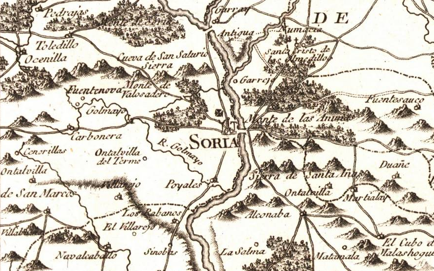 Map of the surroundings of Soria (Spain) in 1783. It is a sample of the map of the province of Soria published by Tomás López in 1804.